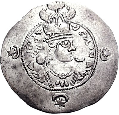 Coin of Yazdegerd III.